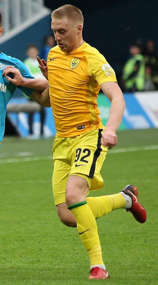 Sergei Bryzgalov with FC Anzhi Makhachkala in a game against FC Zenit St. Petersburg.